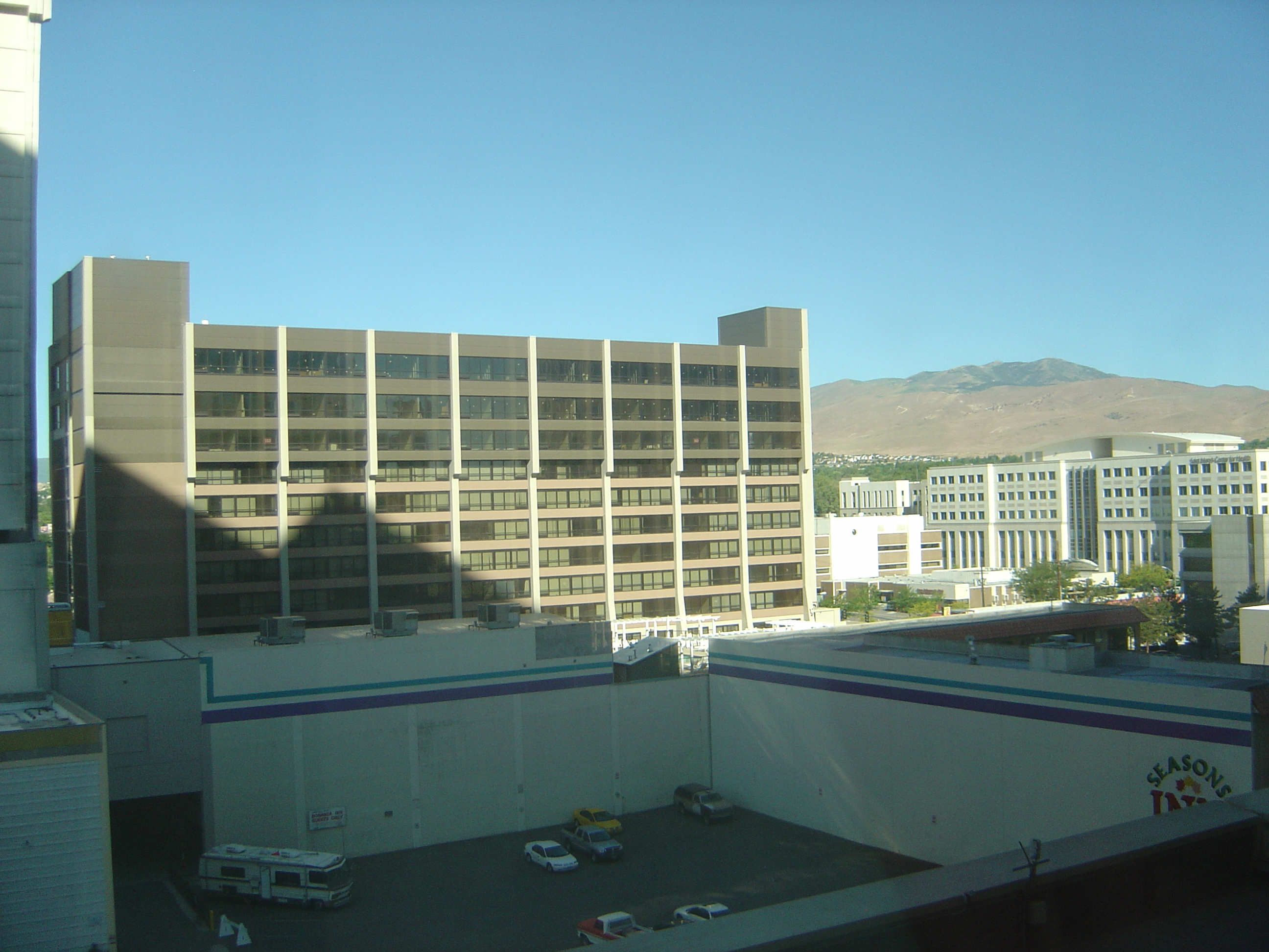 The northern tower of the closed Sundowner hotel-casino in Reno.